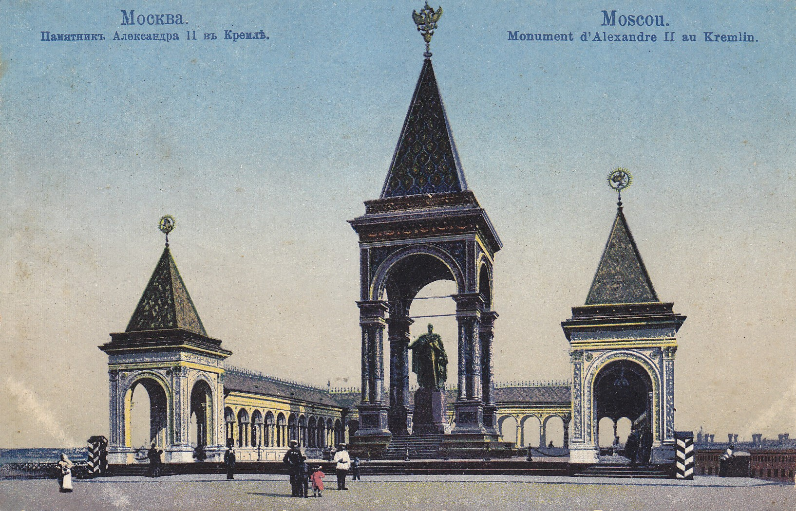 Alexander II memorial, Moscow Kremlin, 1893-1898